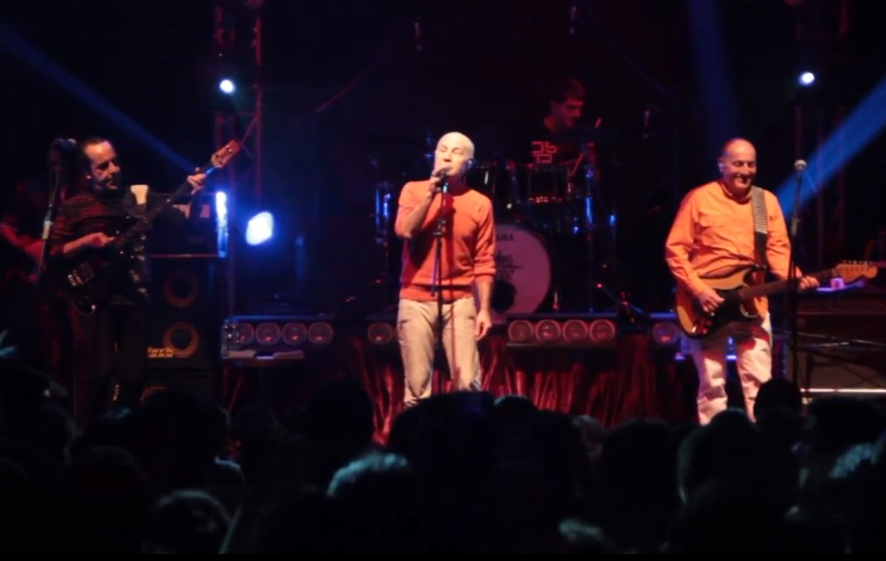 MFÖ at an Ankara concert: From left to right Özkan Uğur, Mazhar Alanson, Fuat Güner